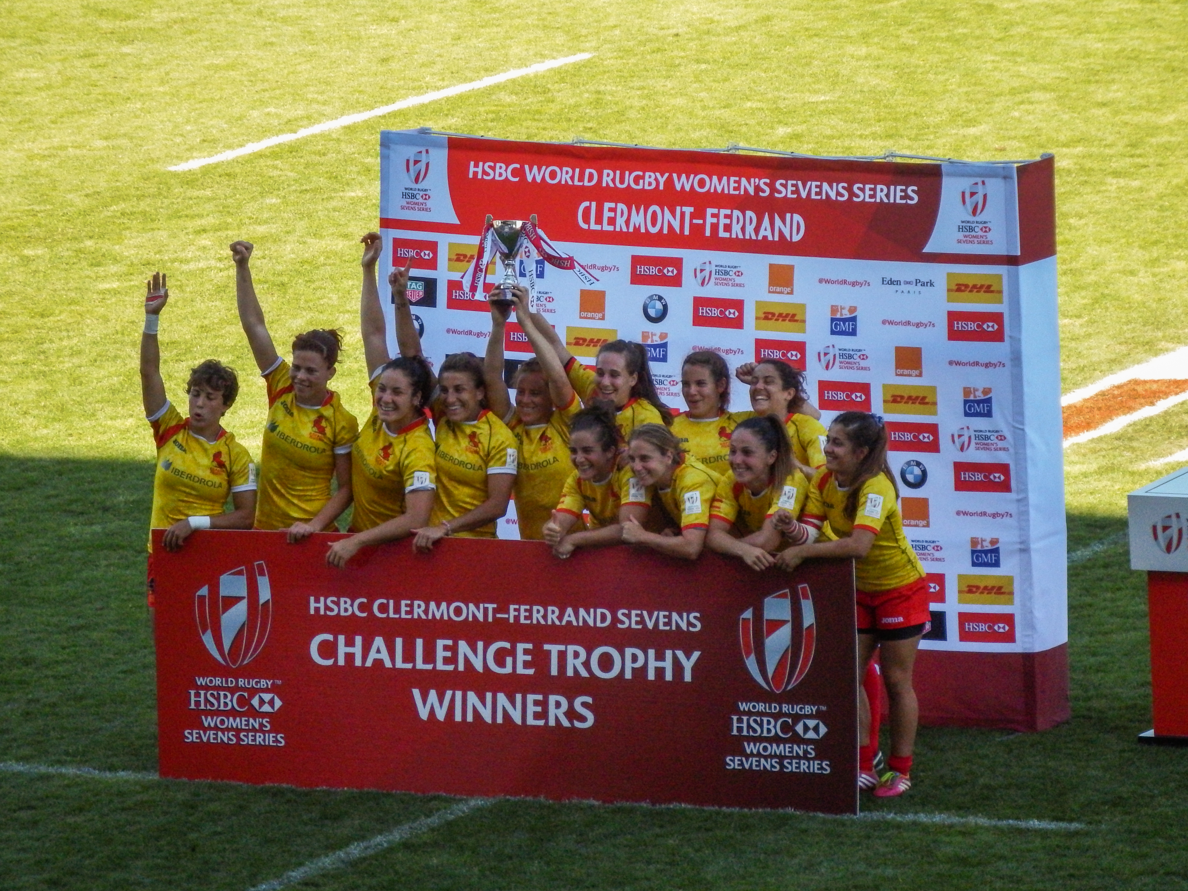 2017 France Women's Sevens — 25 June 2017, Stade Gabriel Montpied. Match between: Spain women's national rugby sevens team — Japan women's national rugby sevens team